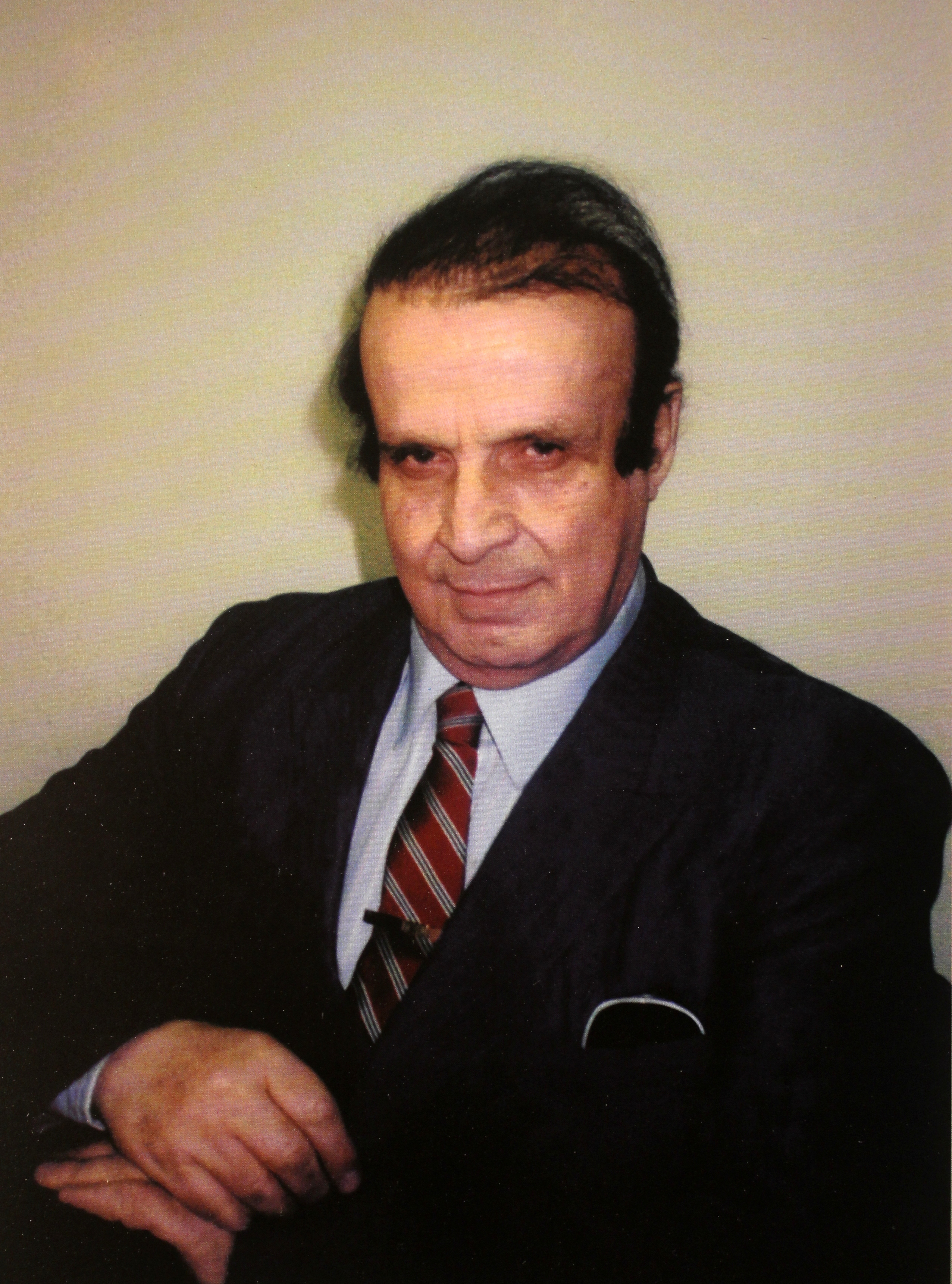 The making of this file was supported by Wikimedia Armenia.